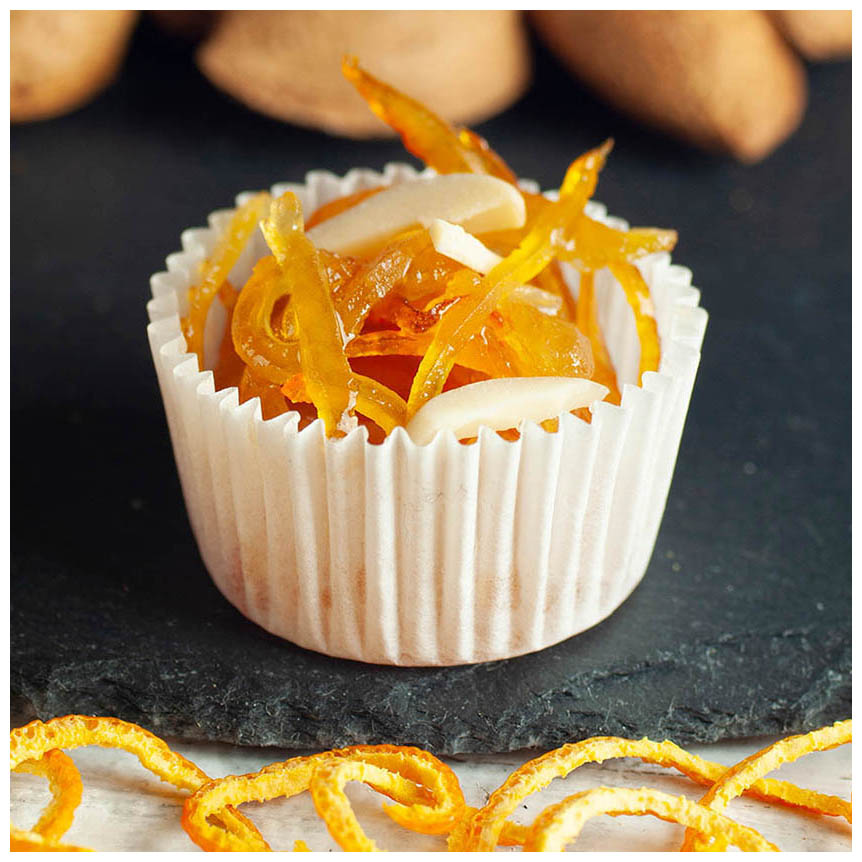 One portion of Arantzada